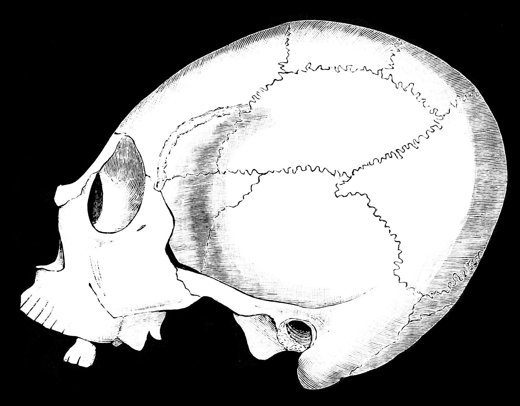 Lucayan skull from the Bahamas